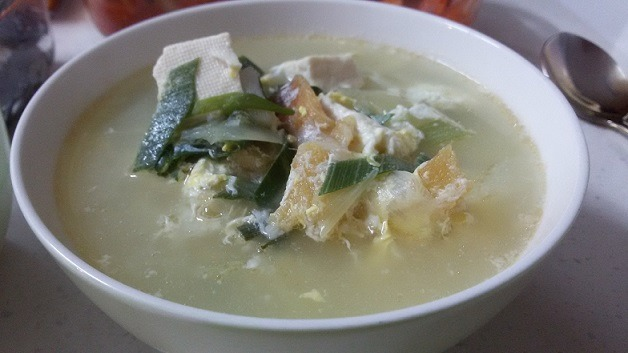 bugeo-guk (dried Alaska pollock soup)